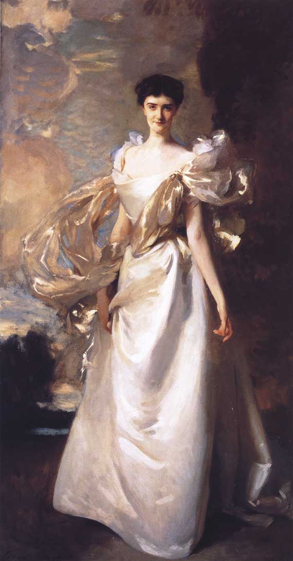 Miss Daisy Leiter (Other title: Marguerite Hyde Leiter) (Later Countess of Suffolk and Berkshire) John Singer Sargent -- American painter 1898 Kenwood, Hampstead Lane, London, England Oil on canvas 228.6 x 119.4 cm (90 x 47 in) Inscription: (Lower left:) John S. Sargent (Lower right:) 1898 signed part of The Iveagh Bequest of Kenwood Jpg